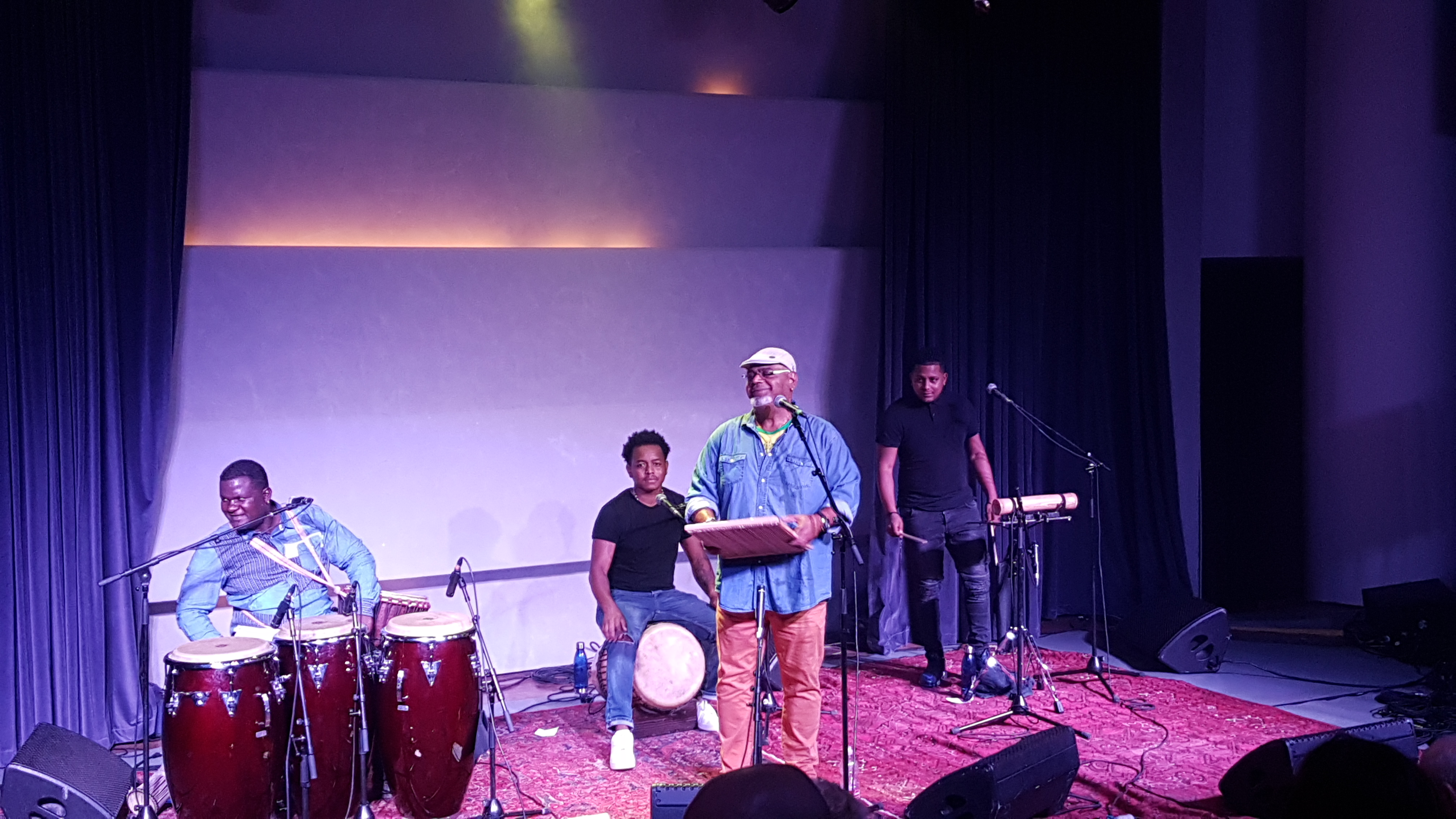 Tiloun at Jerusalem Jazz Festival 03